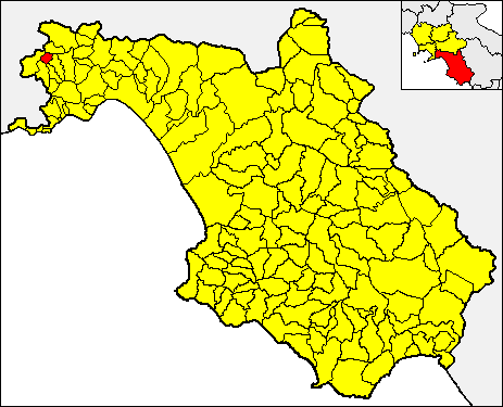 Locator map of the municipality of San Marzano sul Sarno (red) within the Province of Salerno